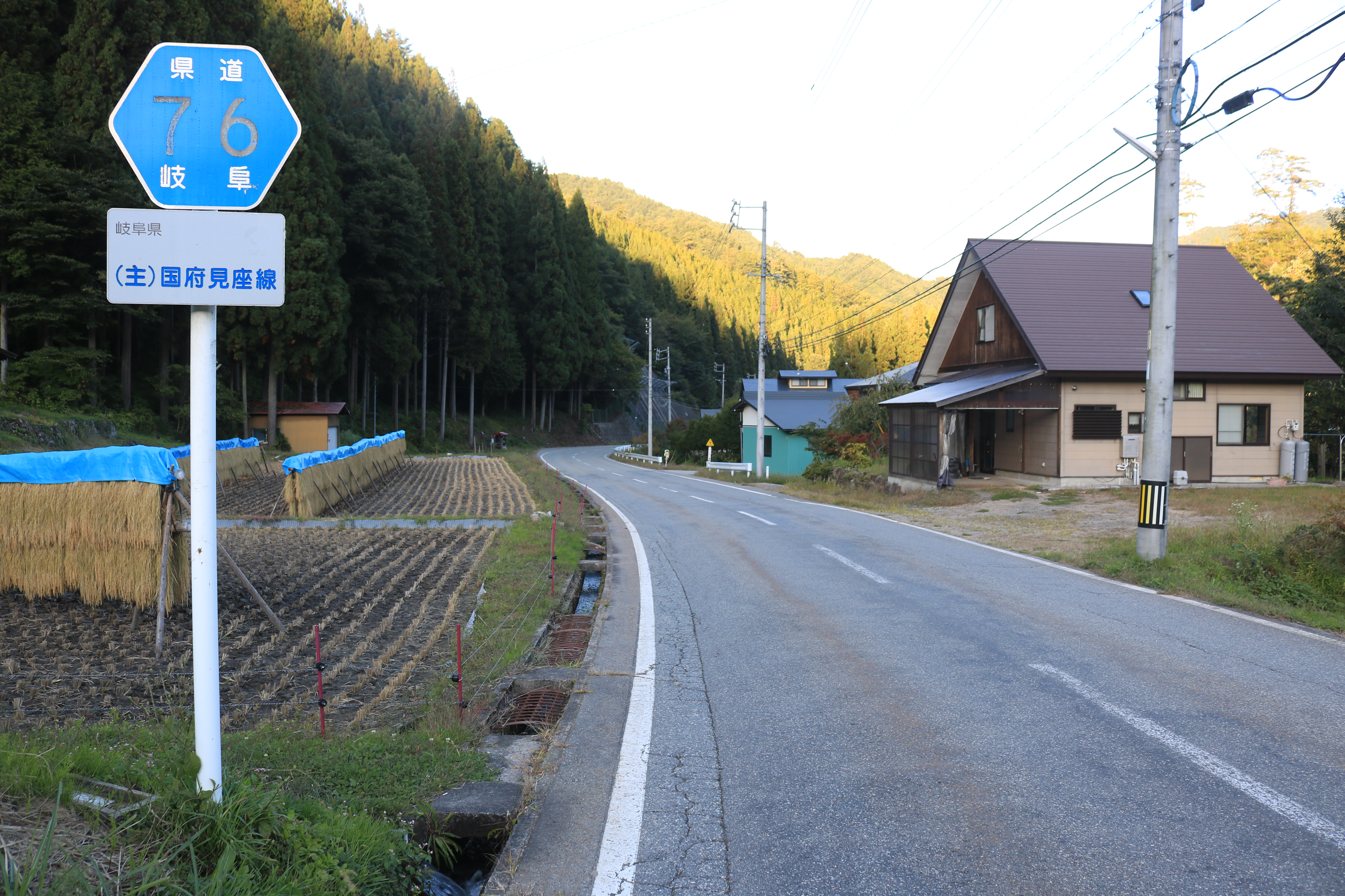 Gifu Prefectural Road Route 76 in Kurabashira, Kamitakara-cho, Takayama, Gifu prefecture, Japan.